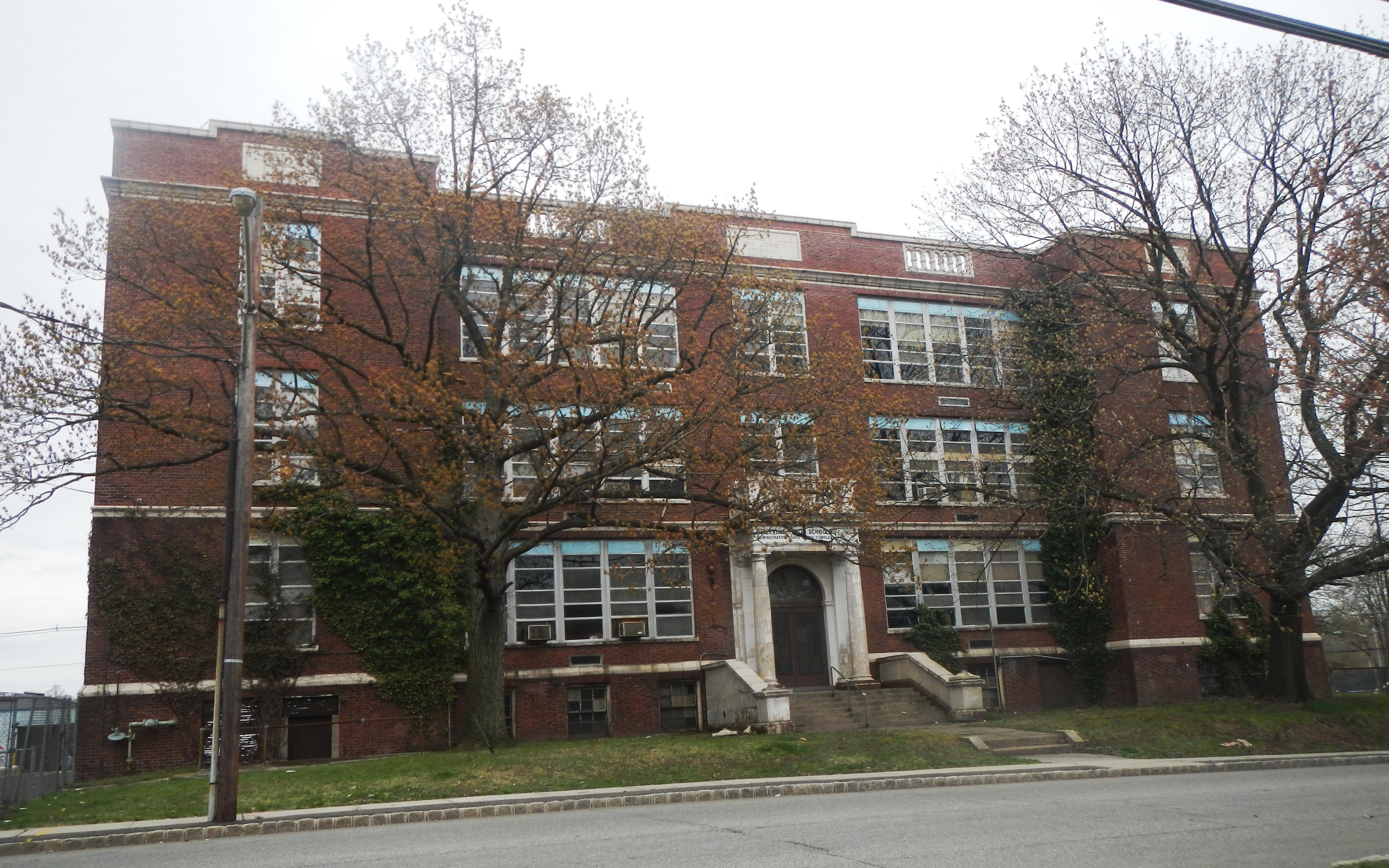 Looking southeast at Bellville administrative complex on a cloudy afternoon.